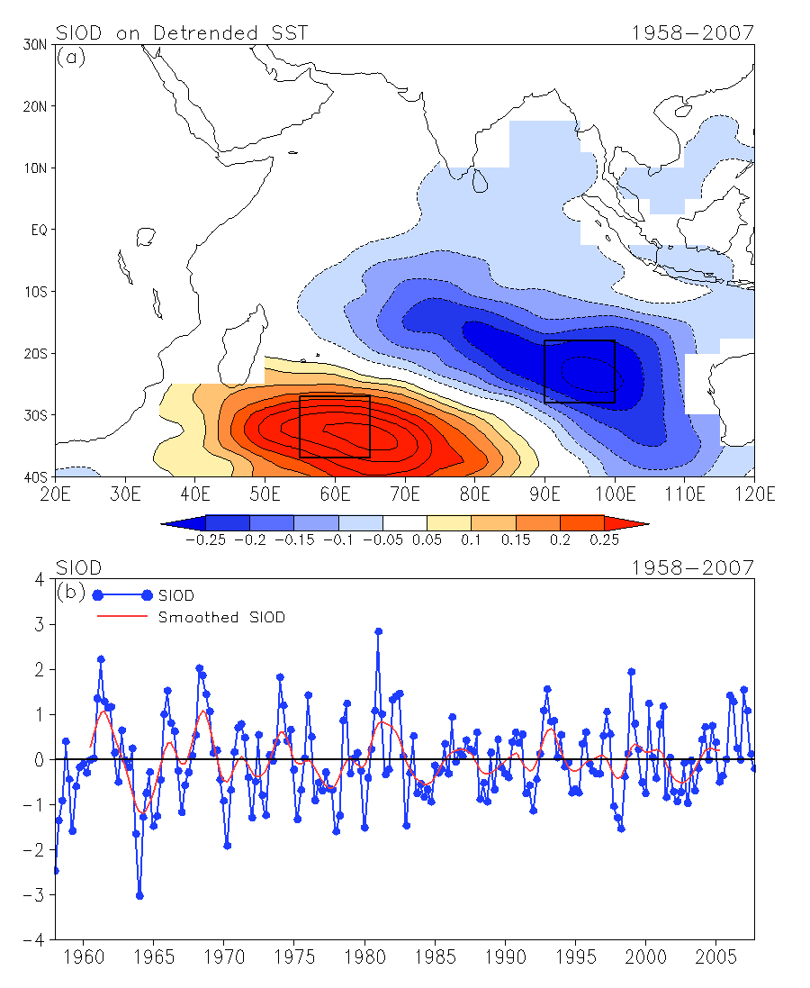 subtropical Indian Ocean Dipole mode: spatial pattern and time series